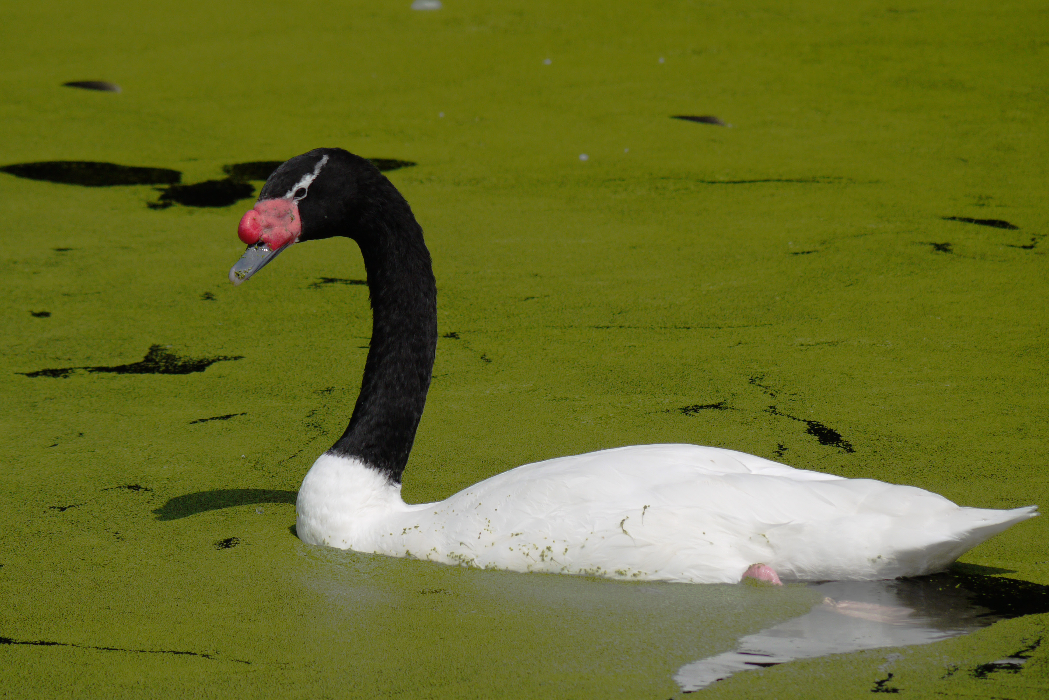 Black-necked swan (Cygnus melancoryphus) at the London Wetland Centre.